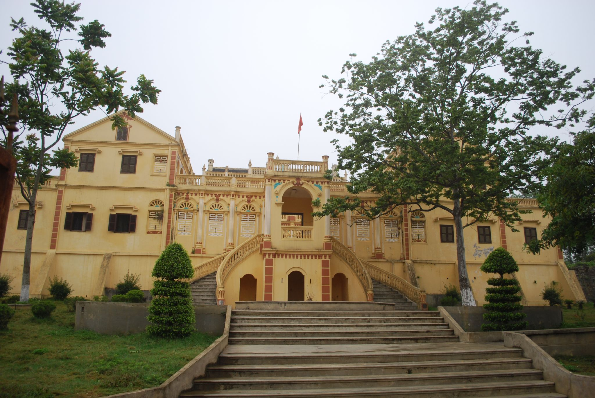 Apparently built by the French as a gift to Hmong chief Hoàng A Tưởng.